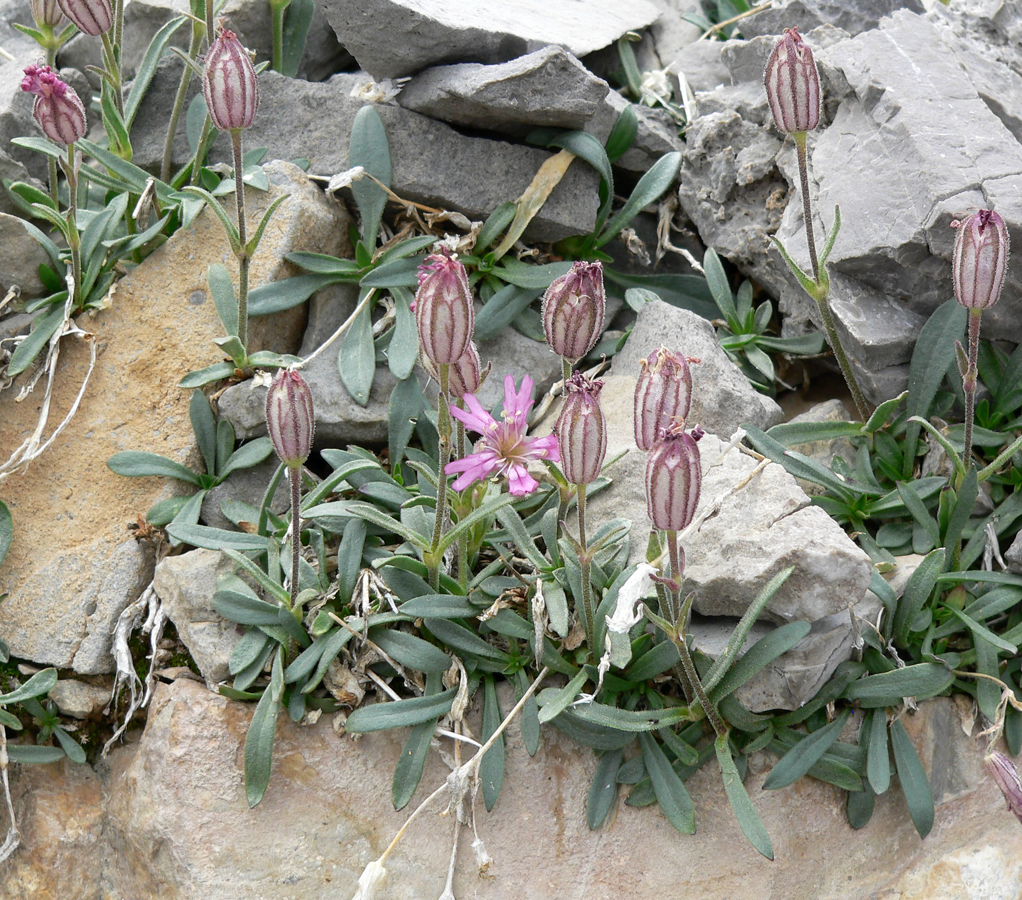 Silene petersonii alongside the North Loop trail on the NW slope of Charleston Peak, Spring Mountains, southern Nevada (elev. about 3500 m)